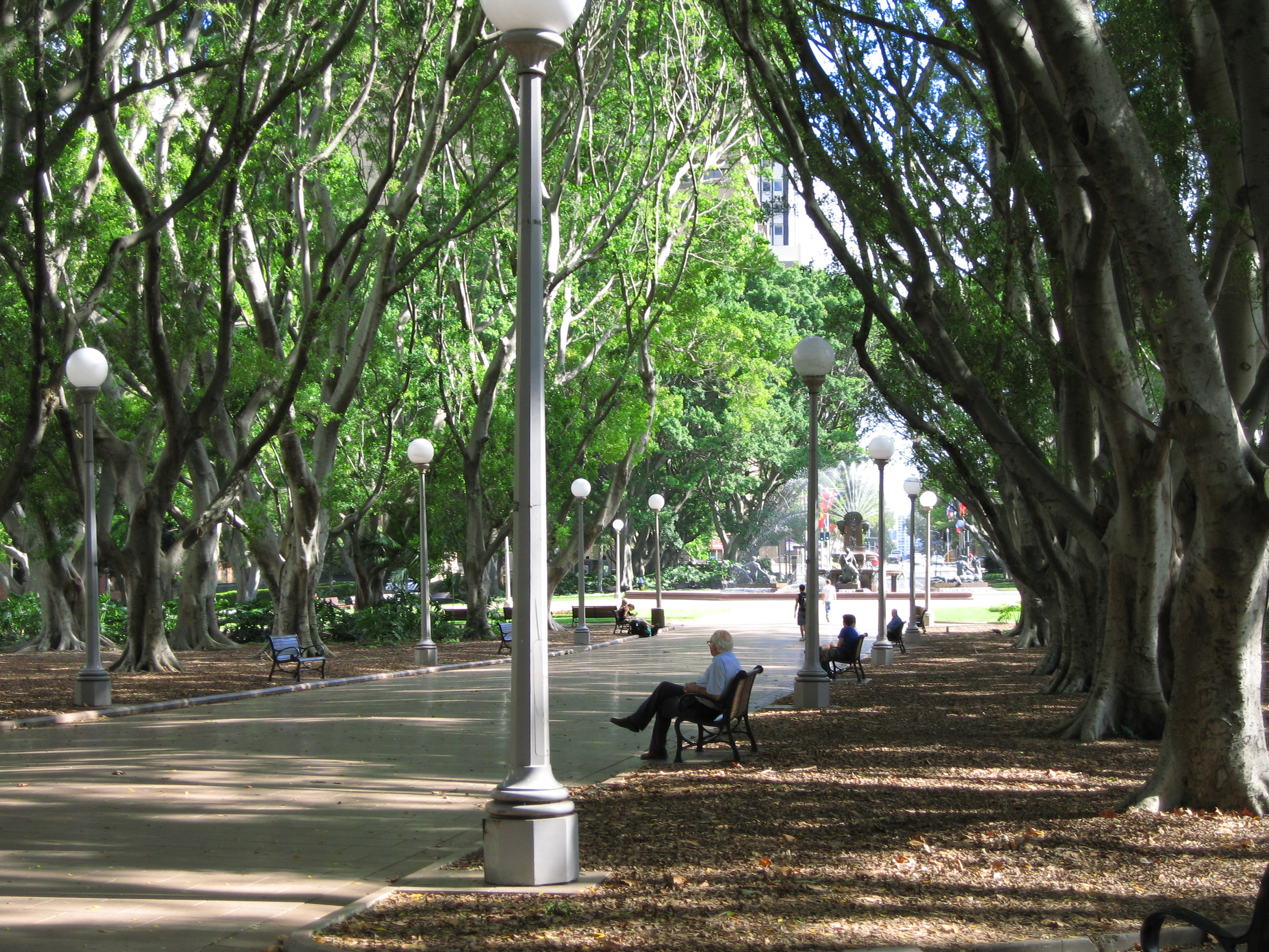 Hyde Park, Sydney, Australia.